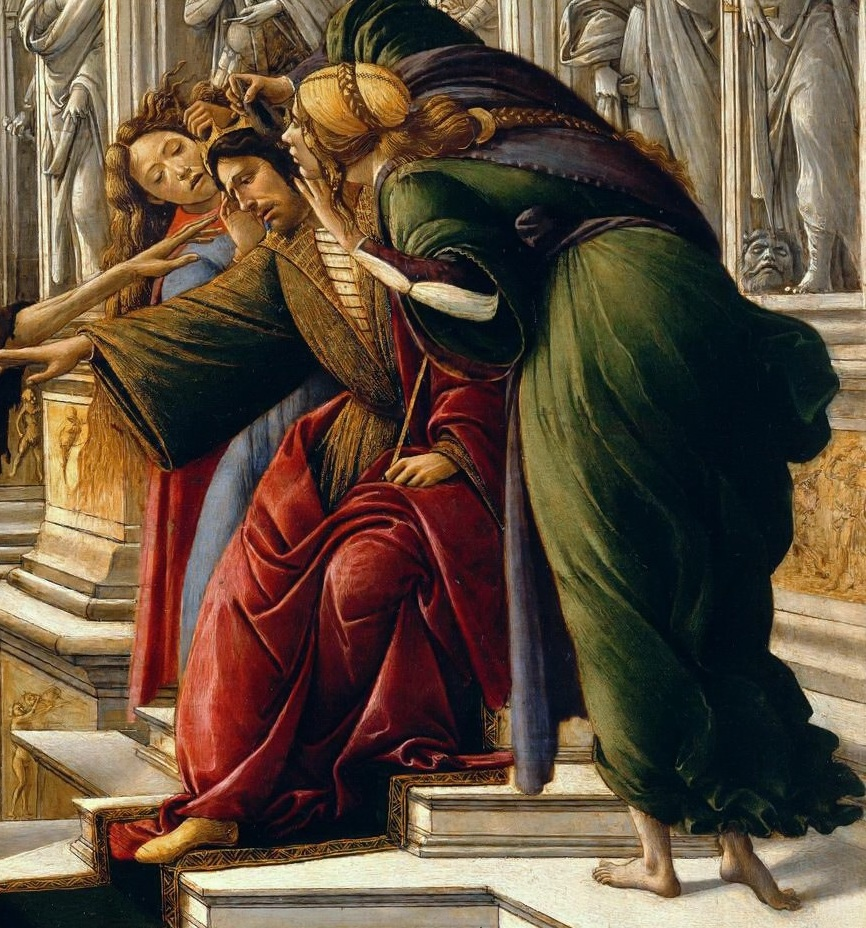 Botticelli made this painting on the description of a painting by Apelles, a Greek painter of the Hellenistic Period. Apelles' works have not survived, but Lucian recorded details of one in his On Calumny: On the right of it sits Midas with very large ears, extending his hand to Slander while she is still at some distance from him. Near him, on one side, stand two women—Ignorance and Suspicion. On the other side, Slander is coming up, a woman beautiful beyond measure, but full of malignant passion and excitement, evincing as she does fury and wrath by carrying in her left hand a blazing torch and with the other dragging by the hair a young man who stretches out his hands to heaven and calls the gods to witness his innocence. She is conducted by a pale ugly man who has piercing eye and looks as if he had wasted away in long illness; he represents envy. There are two women in attendance to Slander, one is Fraud and the other Conspiracy. They are followed by a woman dressed in deep mourning, with black clothes all in tatters—she is Repentance. At all events, she is turning back with tears in her eyes and casting a stealthy glance, full of shame, at Truth, who is slowly approaching.it=L'opera è ispirata al celebre perduto dipinto di Appelle descritto dalli scrittore greco Luciano nel "De Calumnia" e da Leon Battista Alberti nel "De Pictura". La scena raffigura, da destra, il Re Mida mal consigliato dal Sospetto e dall'Ignoranza, il Livore come un uomo barbato col cappuccio, la Calunnia - con una face - che trascina il calunniato, la Frode e l'Insidia dietro di lei, e la Penitenza come una vecchia in abiti laceri che guarda alla Verità nuda e con lo sguardo levato al cielo.